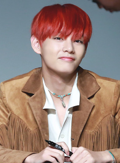 V (Kim Tae-hyung) at a fanmeet on May 11, 2016.